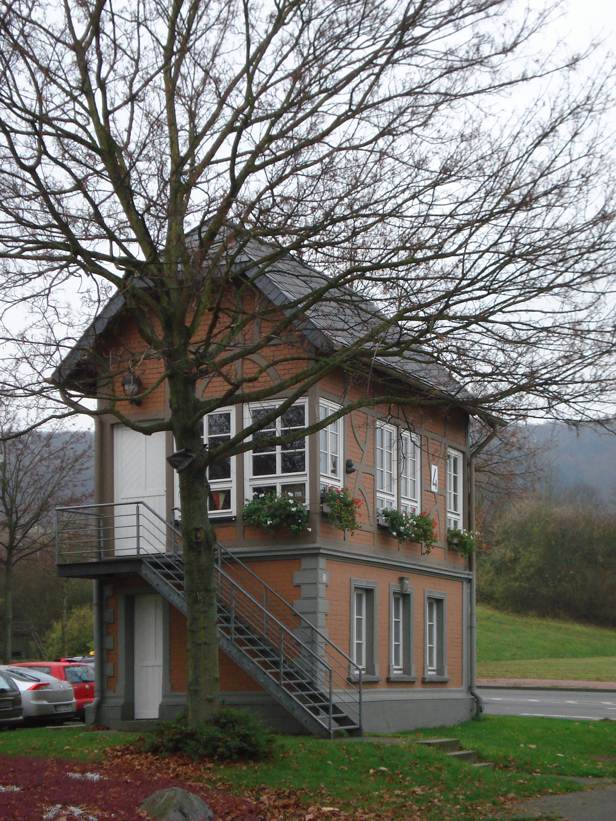 Gatekeeper's house Hagen-Haspe, Germany